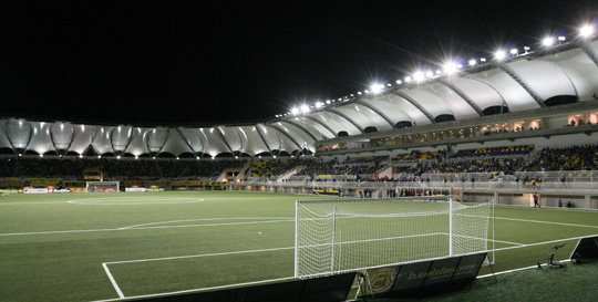 Quillota 15 de septiembre del 2010